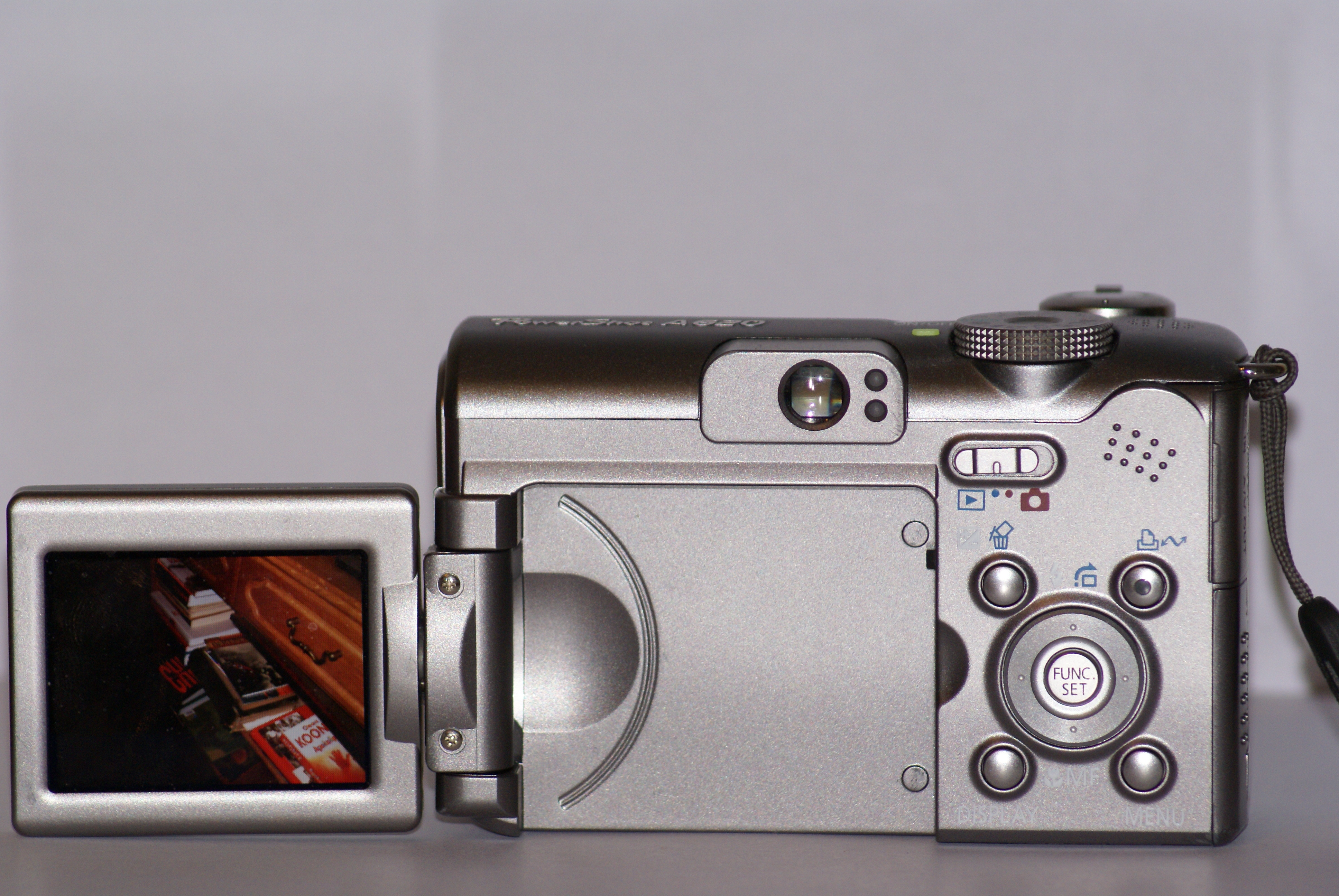 Canon Powershot A620 digital camera Author : prawdapunk Camera : Sony Alpha 100 Date : 6 January 2007